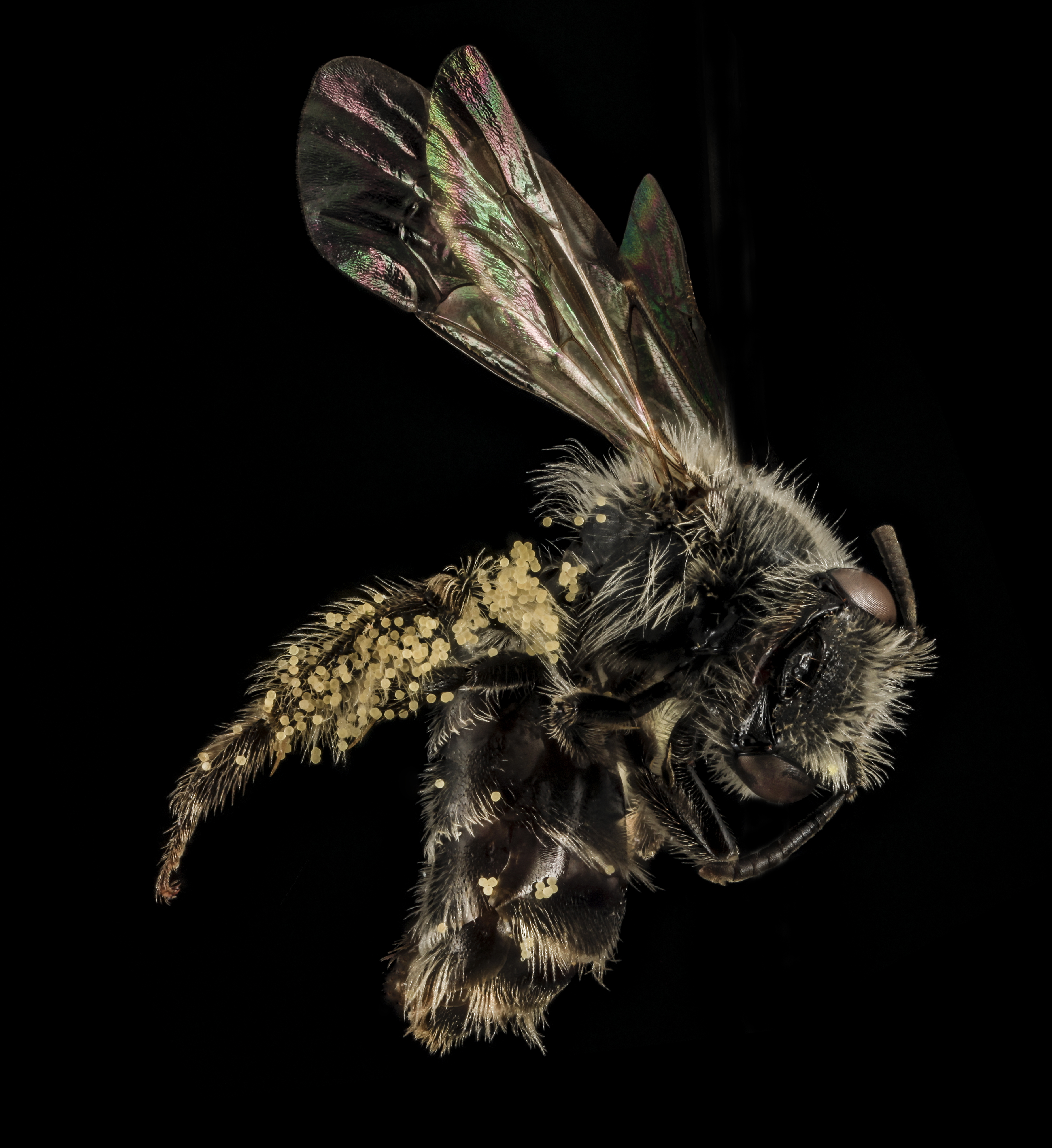 A somewhat odd position with its pollen covered (likely geranium pollen) leg out and its head cocked towards us. Photoshopping by Thistle Droege and photograph by Brooke Alexander. Photography Information: Canon Mark II 5D, Zerene Stacker, Stackshot Sled, 65mm Canon MP-E 1-5X macro lens, Twin Macro Flash in Styrofoam Cooler, F5.0, ISO 100, Shutter Speed 200